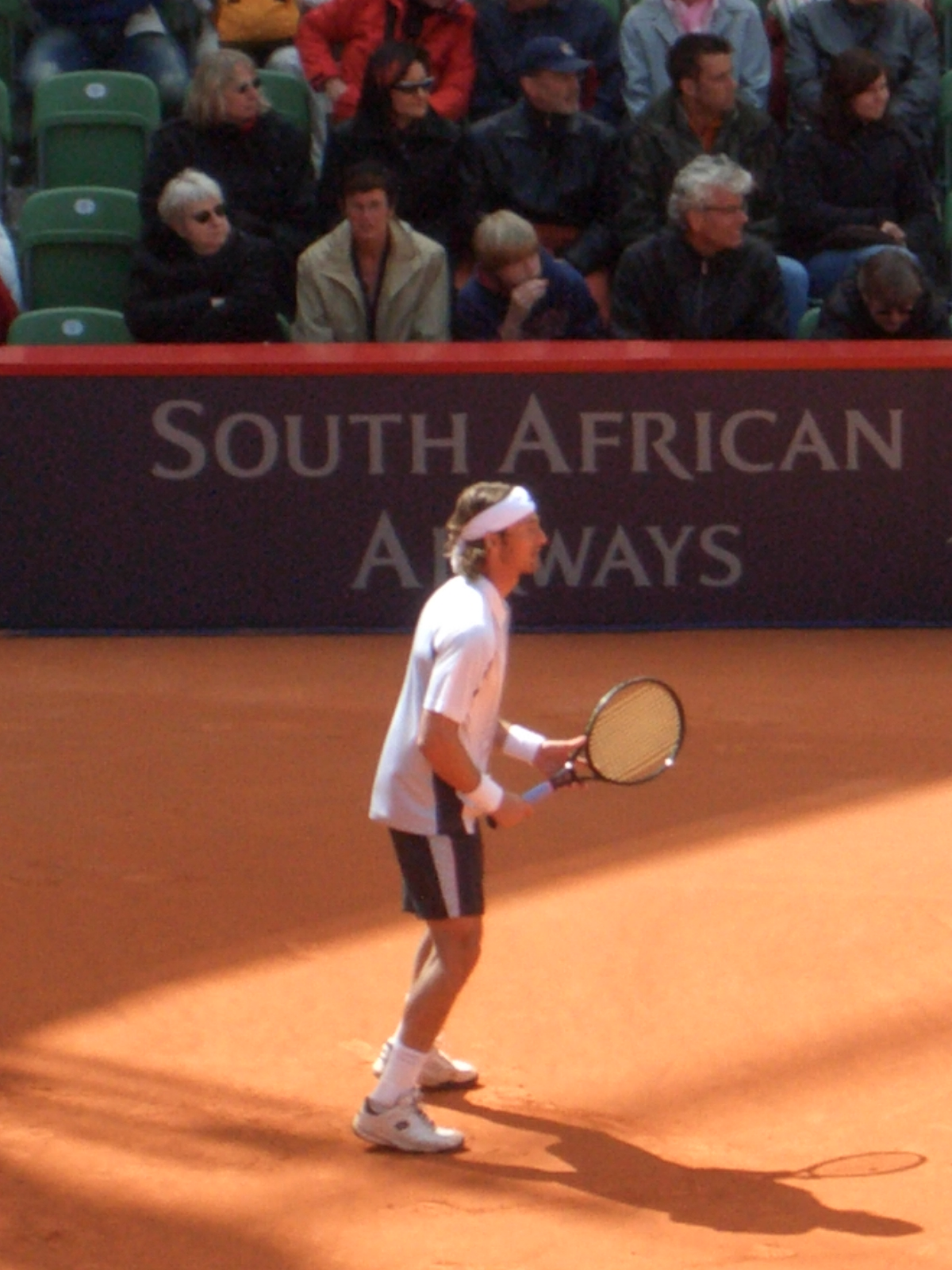 Juan Carlos Ferrero at the Hamburg Masters